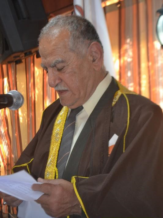 الشاعر نجيب زبيب في حفل تكريمه في منتدى الأرز الثقافي في 16أبريل, 2016